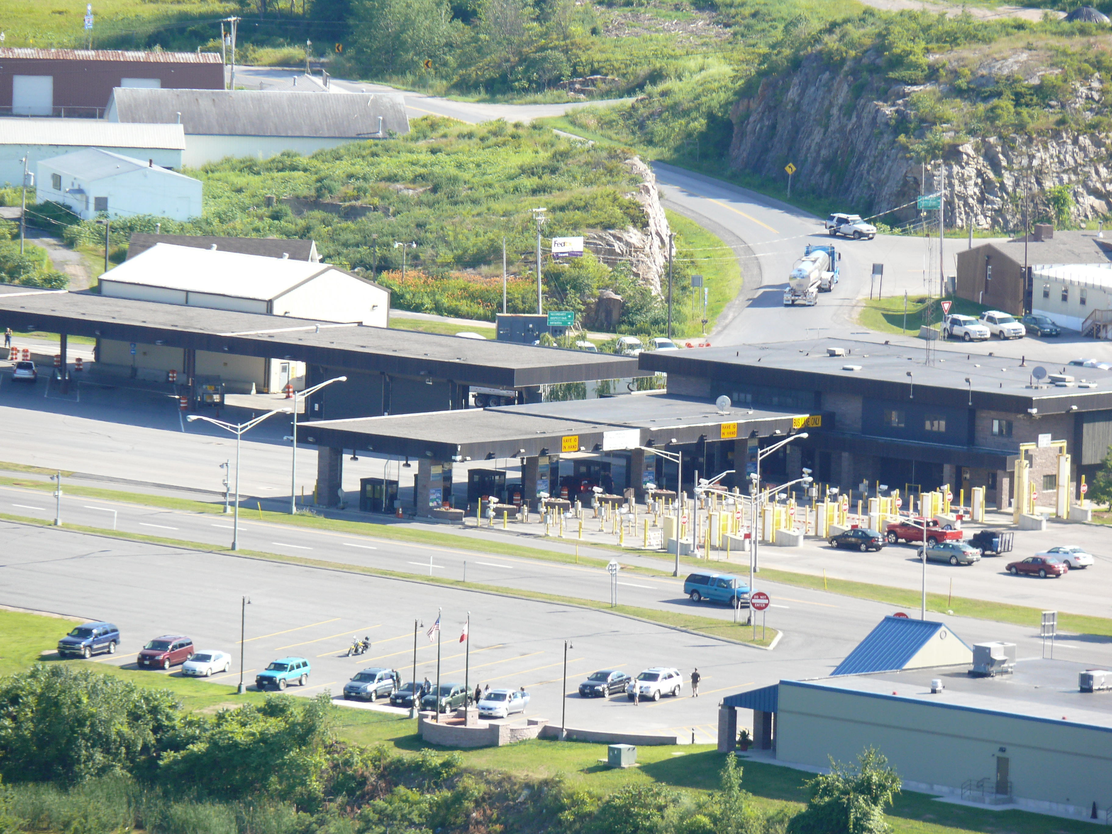 Border crossing between Canada and the United States on Wellesley Island in the Thousand Islands region. The crossing is between two parts of the Thousand Islands Bridge